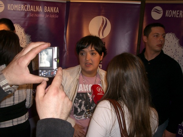 Marija Šerifović on a press conference after winning Beovizija 2007.